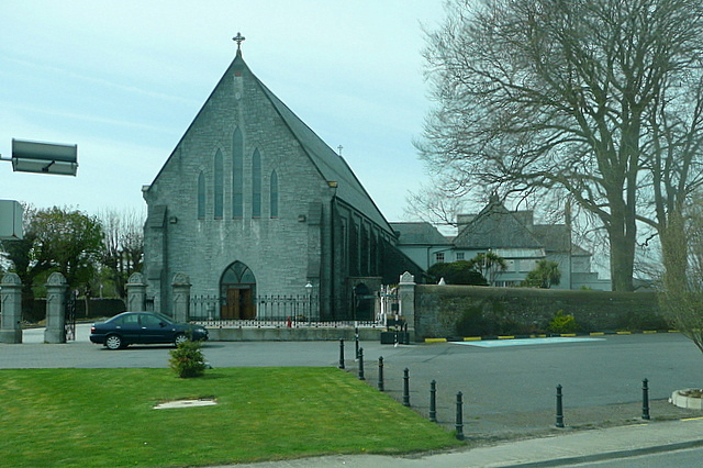 Church at Mooncoin, near to Ballytarsney, Moin Choinn, Grange, Doornane and Ballincurra, Kilkenny, Ireland. The Church of the Assumption, the parish church. Taken from the Limerick to Waterford coach, which stopped here.